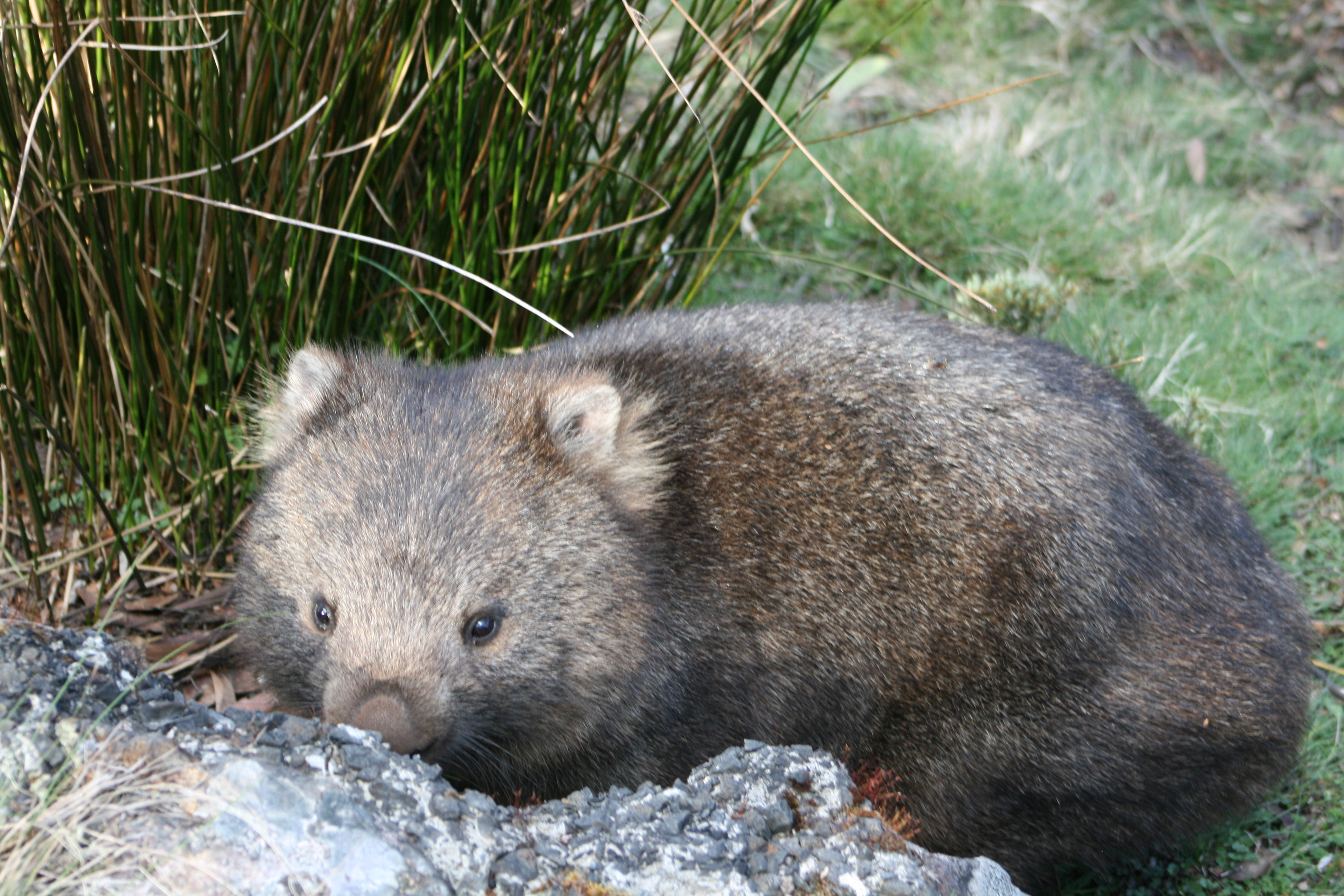 Wombat (Vombatus ursinus), Cradle Mt Ntal Park, Tasmania, Australia